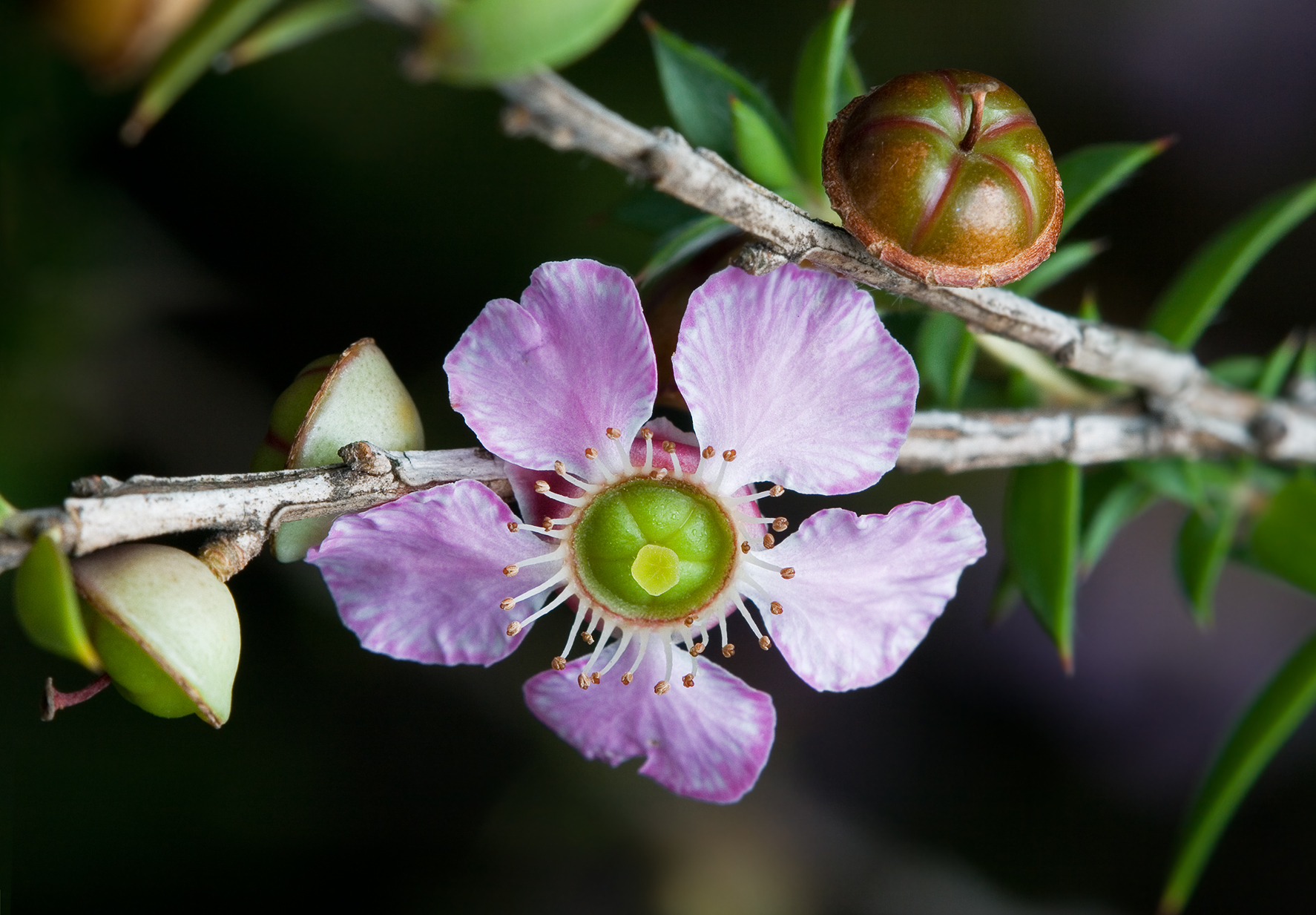 Pink Teatree (Leptospermum squarrosum) fam.: Myrtaceae Camera data Camera Canon EOS 400D Lens Tamron EF 180mm f3.5 1:1 Macro Flash Umbrella Right Focal length 180 mm Aperture f/11 Exposure time 1/200 s Sensivity ISO 200